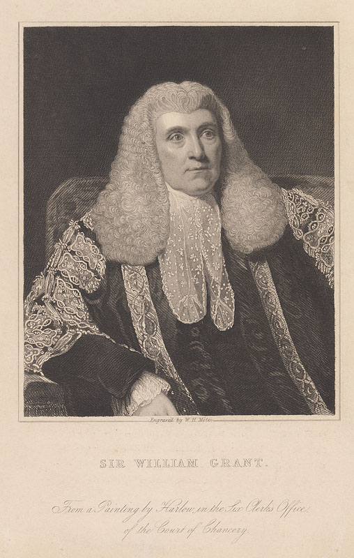 Portrait of William Grant (British politician), 1752-1832